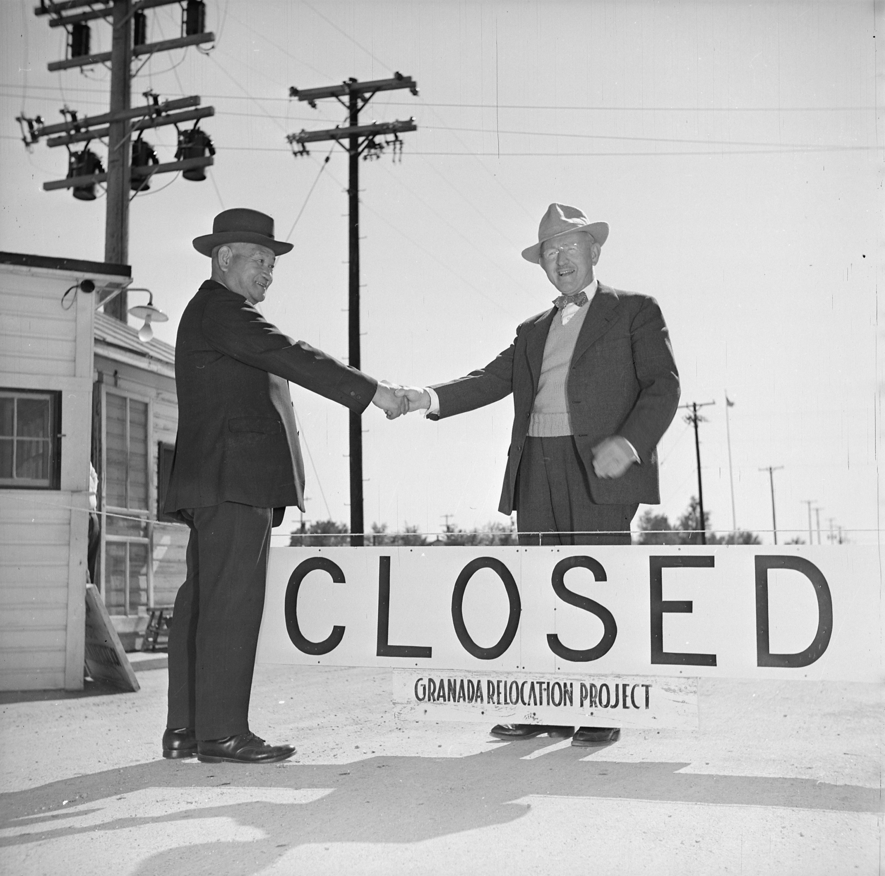 Scope and content: The full caption for this photograph reads: Granada Relocation Center, Amache, Colorado. Shuichi Yamamoto, last Amache evacuee to leave the Granada Project Relocation Center, says "Goodbye" to Project Director James G. Lindley, as War Relocation Authority camp is officially closed October 15, 1945. Mr. Yamamoto, 65 years of age, is returning to his former home in Marysville, California.